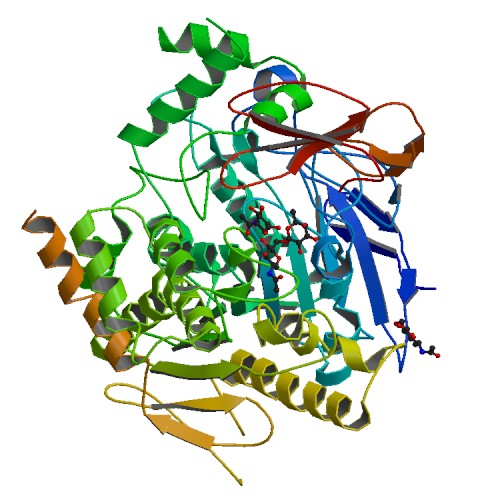 Acetylcholinesterase. PDB rendering based on 1b41 structure from